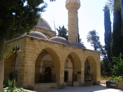 A mosque in Nicosia, Cyprus - northern (Turkish) part